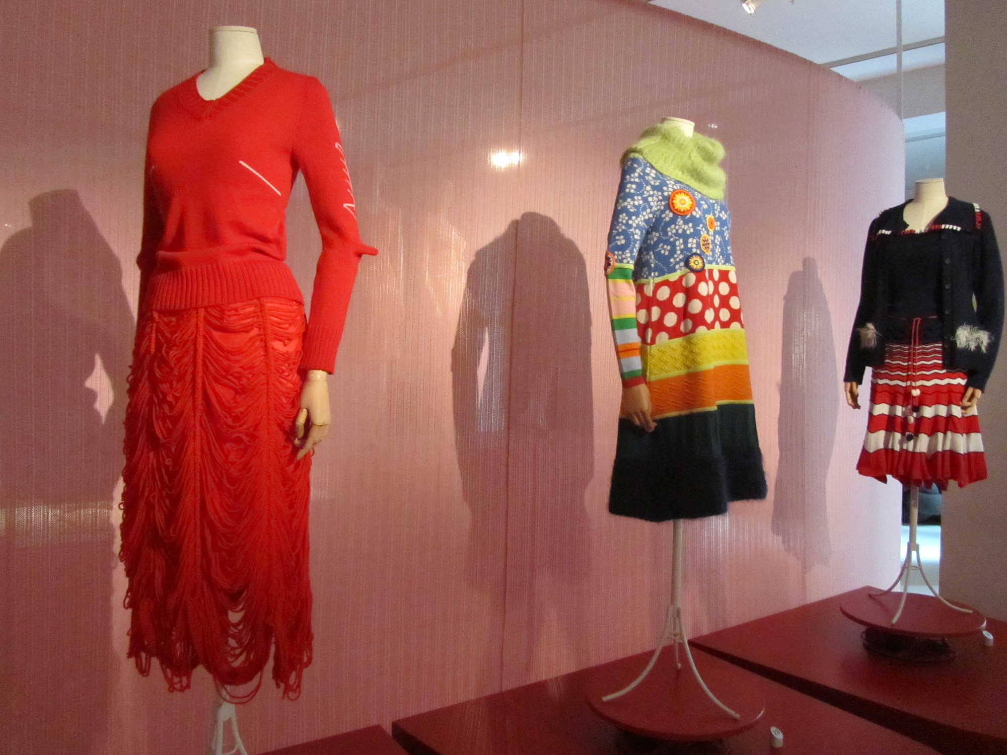 Knitwear exhibition ONTRAFEL. Tricot in de Mode at the Fashion Museum (ModeMuseum, MOMU) in Antwerp, Belgium. The central design is a dress by Walter Van Beirendonck, inspired by the colourful clothing of the Hui'an women of Quanzhou, China. The flanking designs are by the German-born fashion designer Bernhard Wilhelm. On the left a jersey sweater with elbows like the heels of a sock, and a skirt with alternating strips of knitted wool and loose threads. On the right the Beefeater wool jacket and Superflyskirt jersey dress.